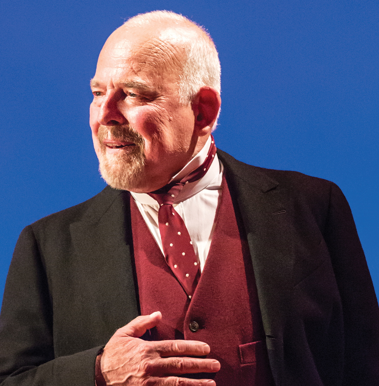 John Shrapnel in A Winter's Tale